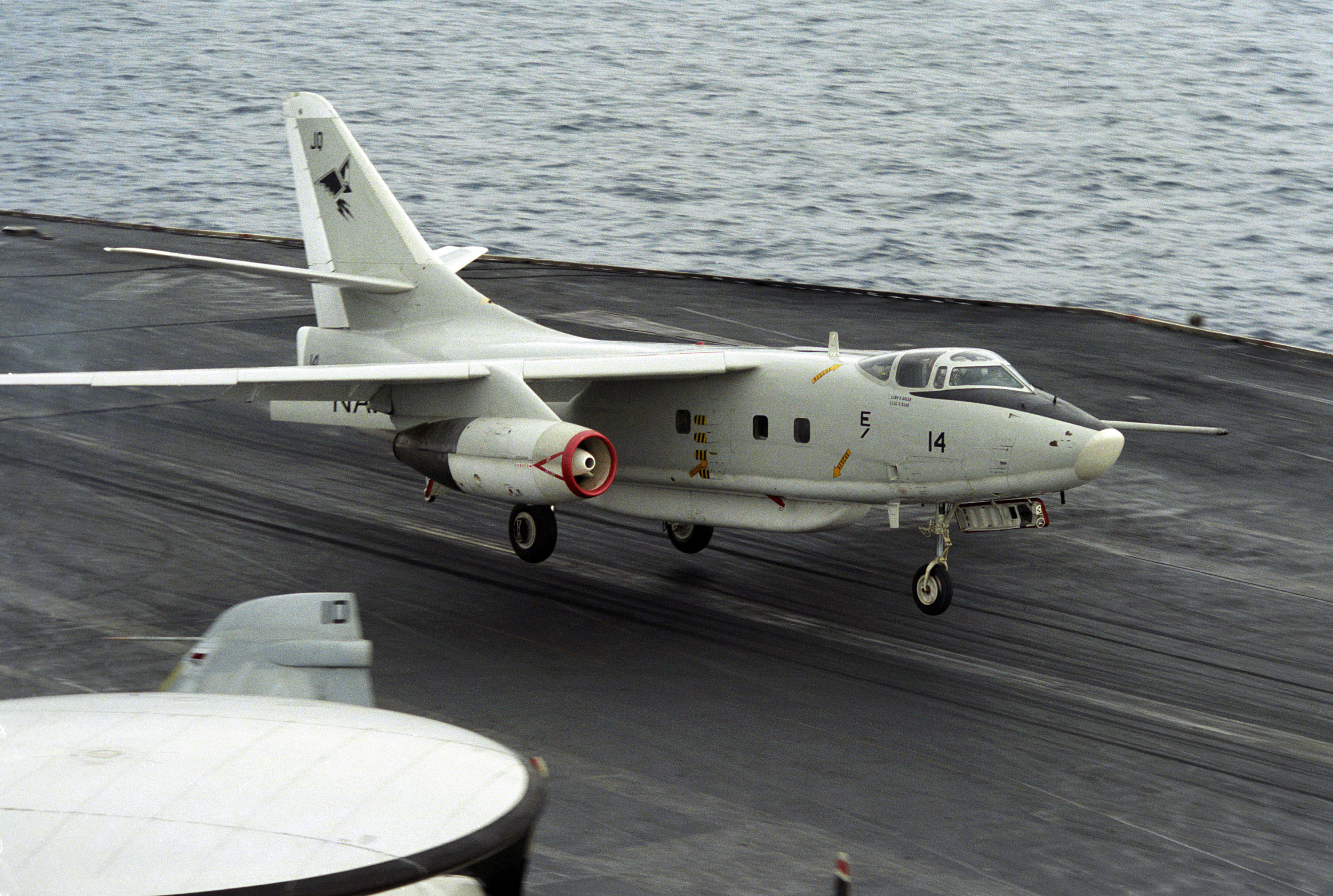 A U.S. Navy Douglas EA-3B Skywarrior from electronic reconnaissance squadron VQ-2 Batmen taking off after having just misses the wires aboard the aircraft carrier USS Saratoga (CV-60) on 22 March 1986.